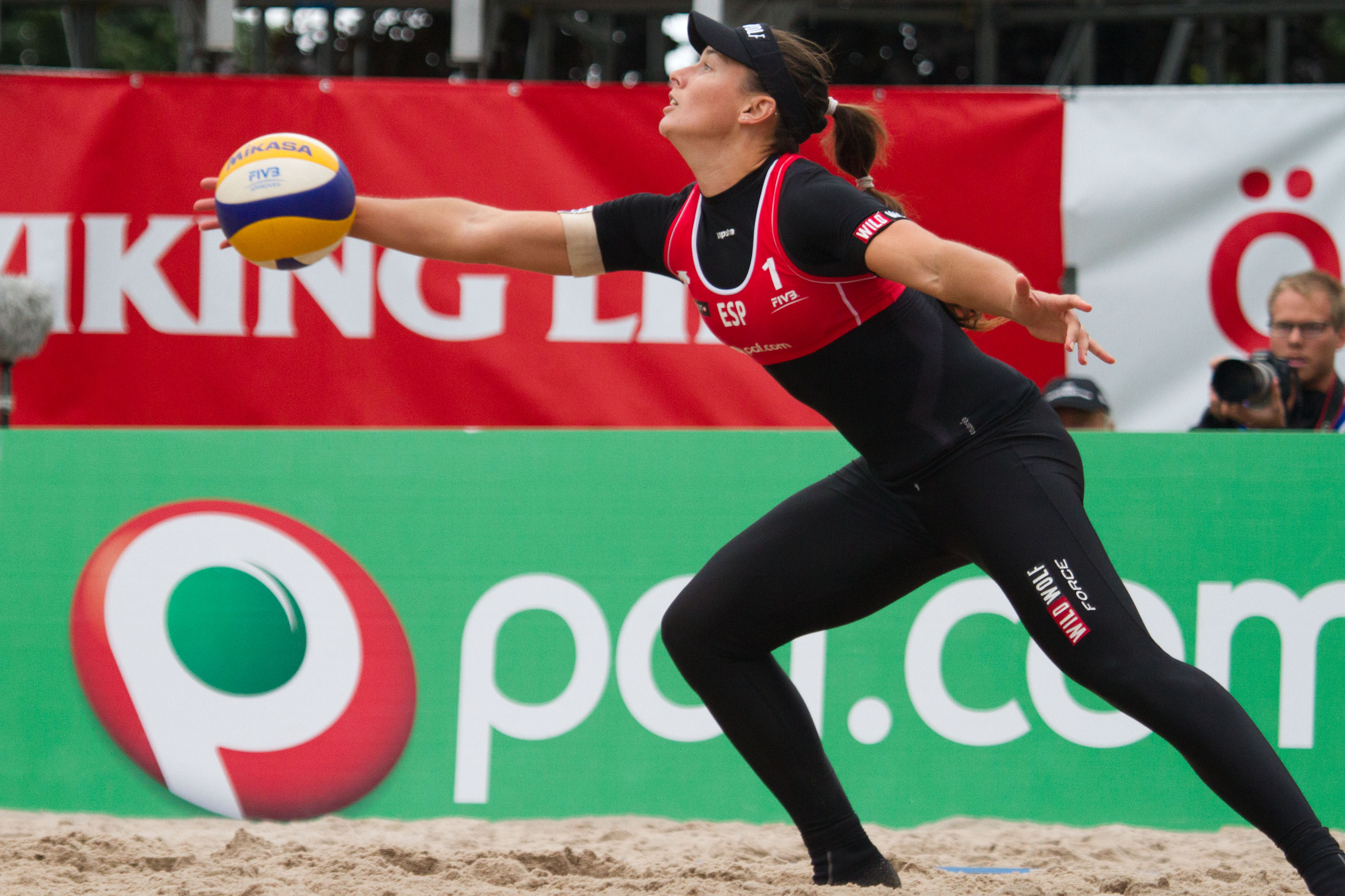 Holtwick and Semmler of Germany defeat Liliana and Baquerizo of Spain in the final to take gold. The final day of the Paf Open in Mariehamn, Åland, Finland, September 2 2012. Photograph: Rob Watkins/ This picture is free to use as long as it it credited: Rob Watkins/